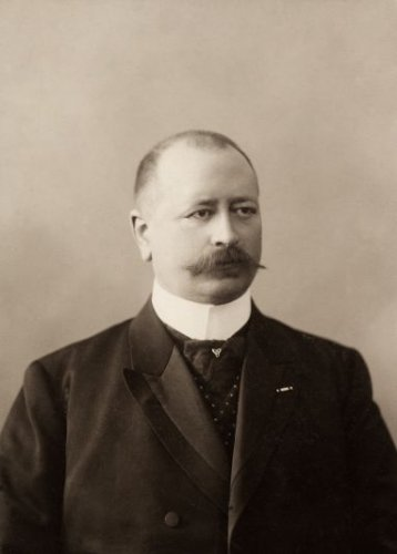 Parliamentarian from the Netherlands